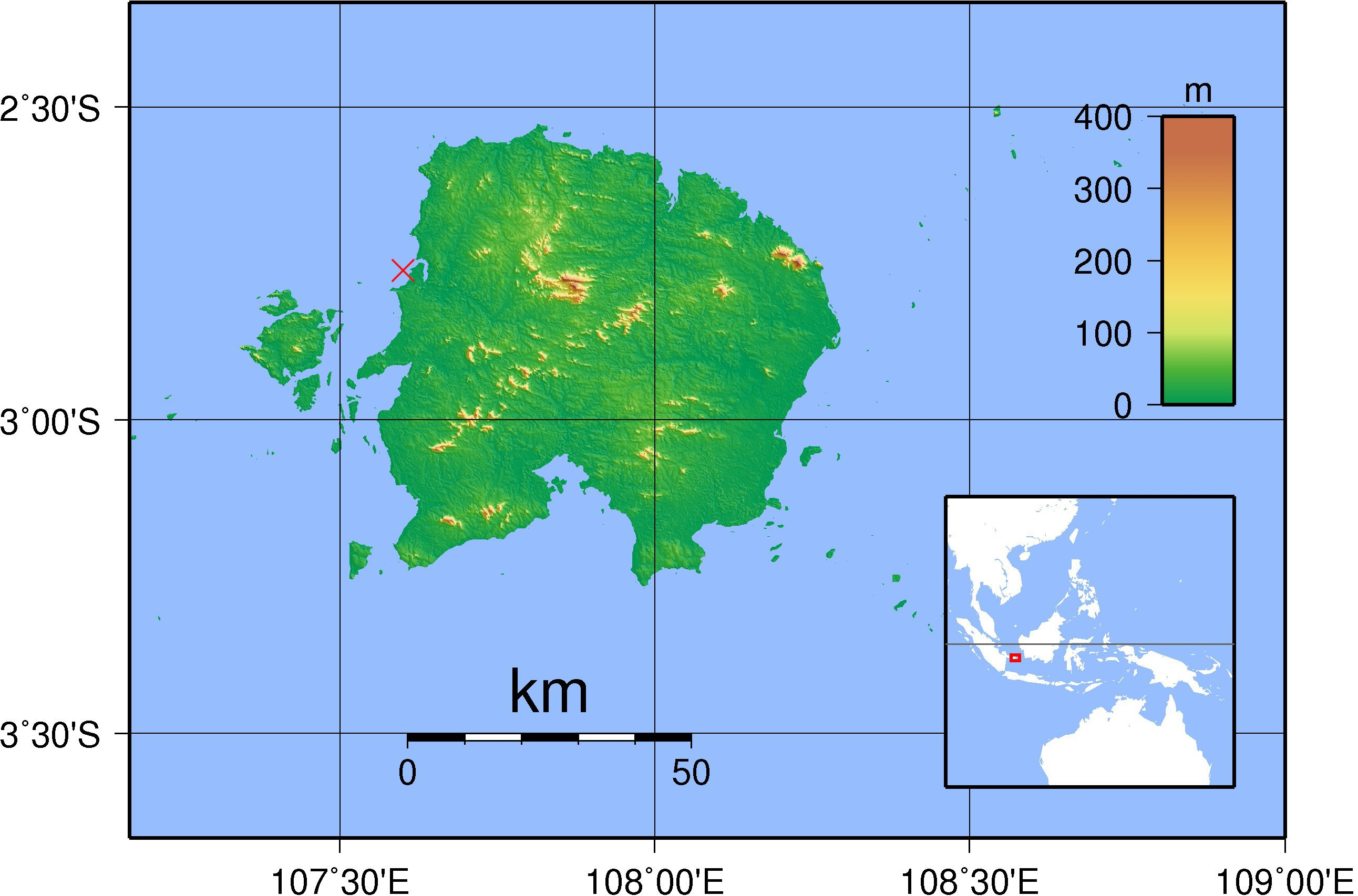 Topographical map of Belitung Island with the Belitung Shipwreck marked with a red cross (2º 45’ S, 107º 35’ E) Object location2° 45′ 39″ S, 107° 35′ 42.66″ E